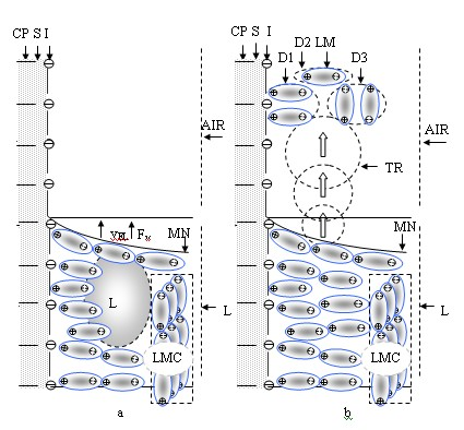 Molecular power 19. Fluctuation model of fluid flow by capillary